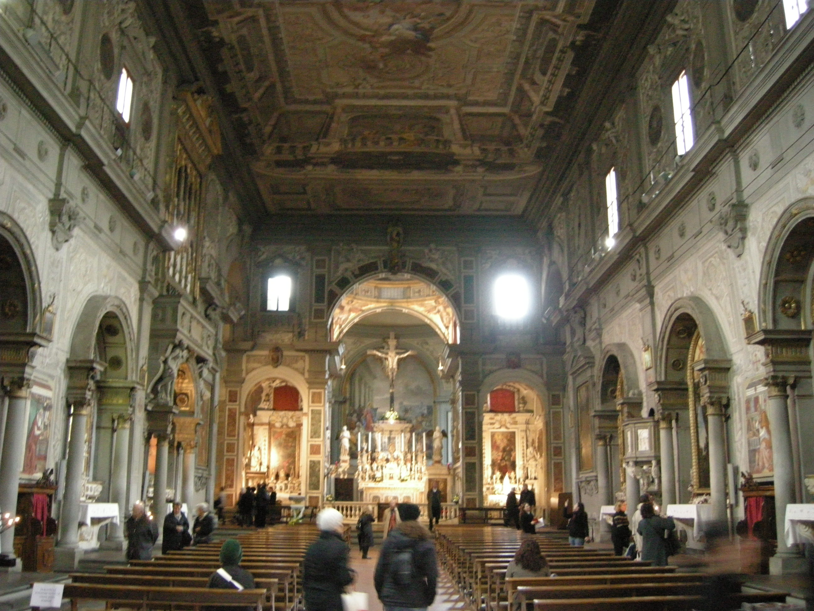 Ognissanti church, inside view in Florence, Italy